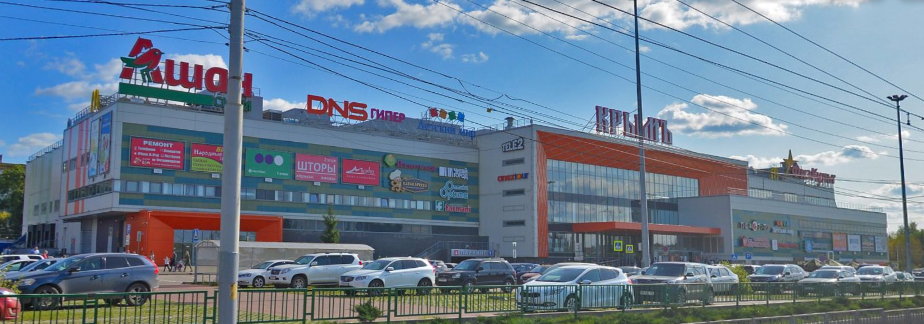 Shopping mall Krym in Nizhny Novgorod of 2019 year